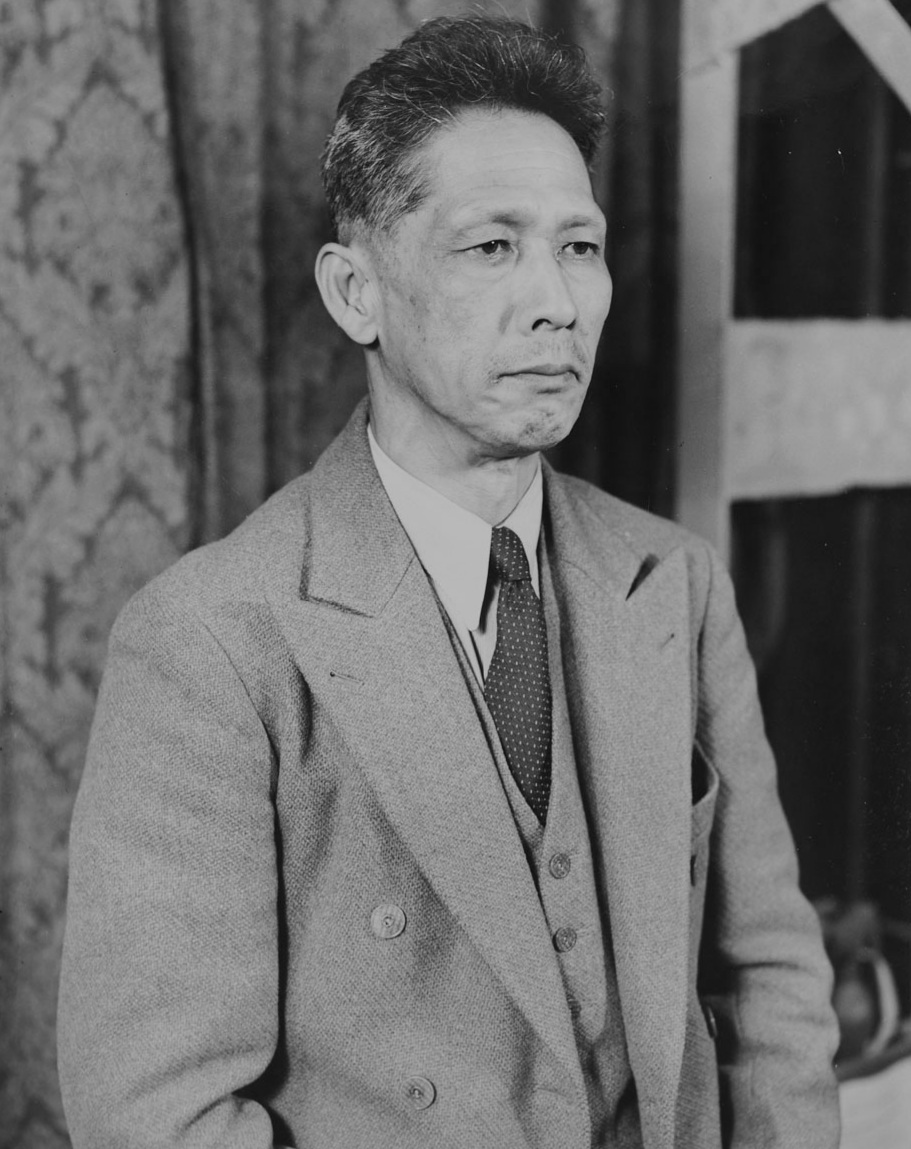 Teiichi Suzuki during the trial for war crimes at International Military Tribunal for the Far East